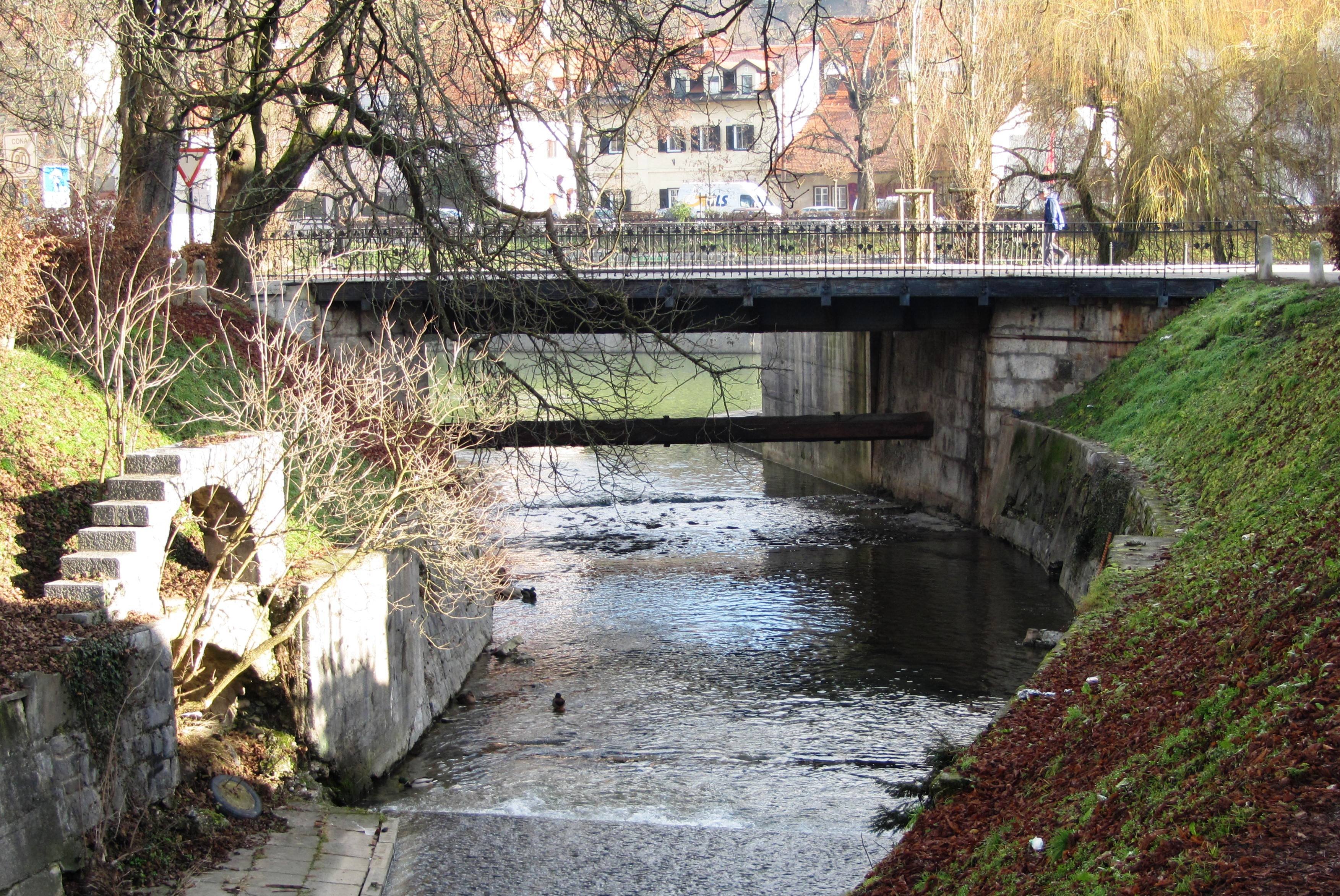 The Jek Bridge over the Gradaščica River in Ljubljana, Slovenia